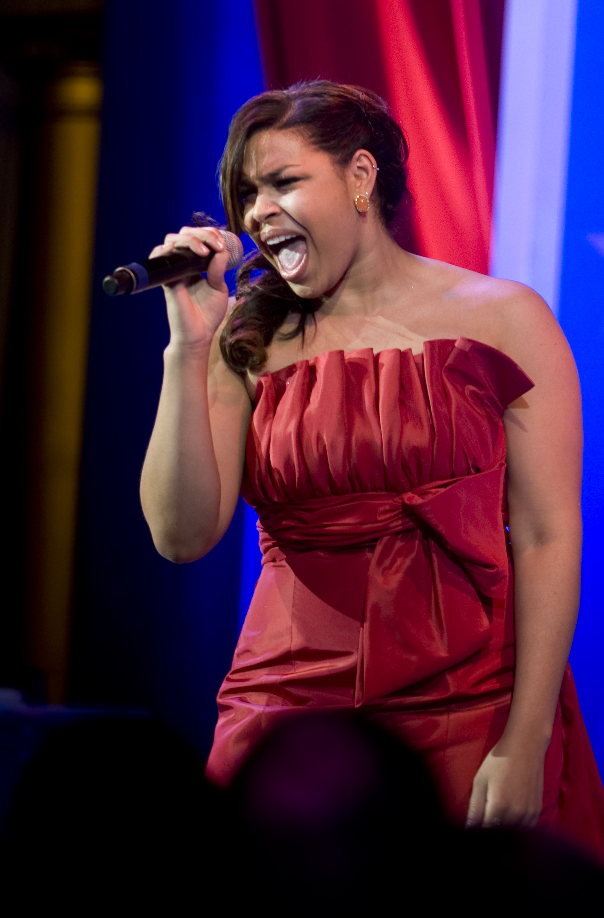 American Idol Jordan Sparks performs at the Commander-in-Chief's Ball at the National Building Museum in Washington, D.C., Jan. 20, 2009. The ball, hosted by President Barack Obama, honored America's service members, families of the fallen, and wounded warriors.